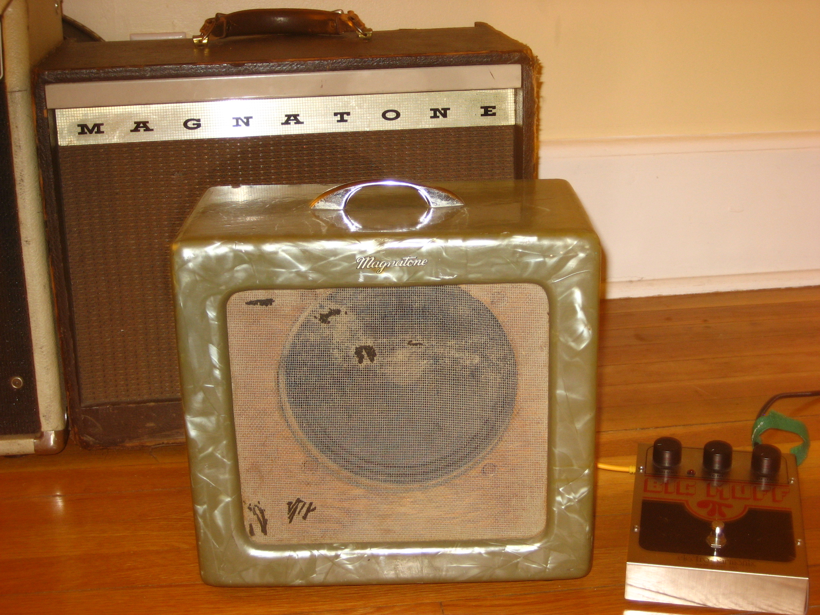 Magna Electronics Company, Los Angeles CA foreground: Magnatone Varsity ca. 1953, all original tubes, speakers, etc. background: Magnatone 213 Troubador ca. 1957 "(on 213/213A) The simple two varistor version of F.M.Vibrato is used with depth and speed controls."—